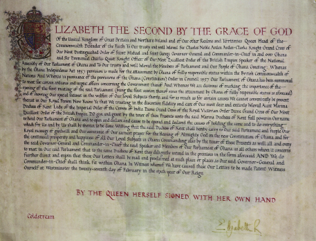 Independence message from the Queen of England to the people of Ghana